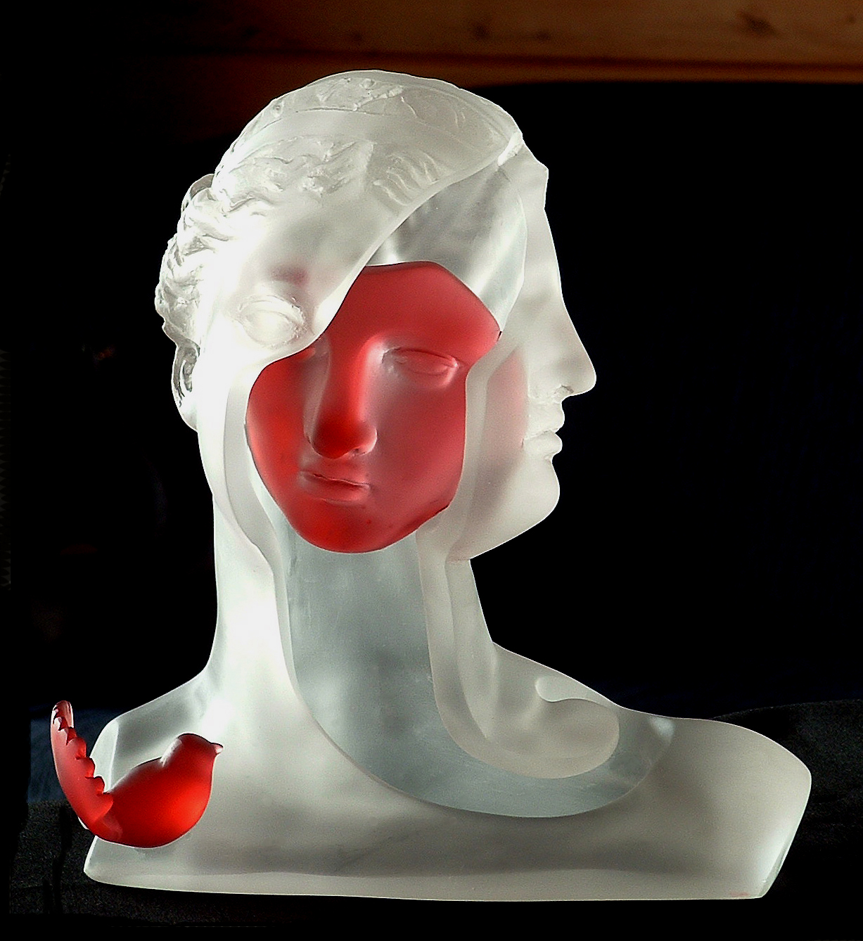 A kiln cast glass sculpture by NZ artist Sue Hawker